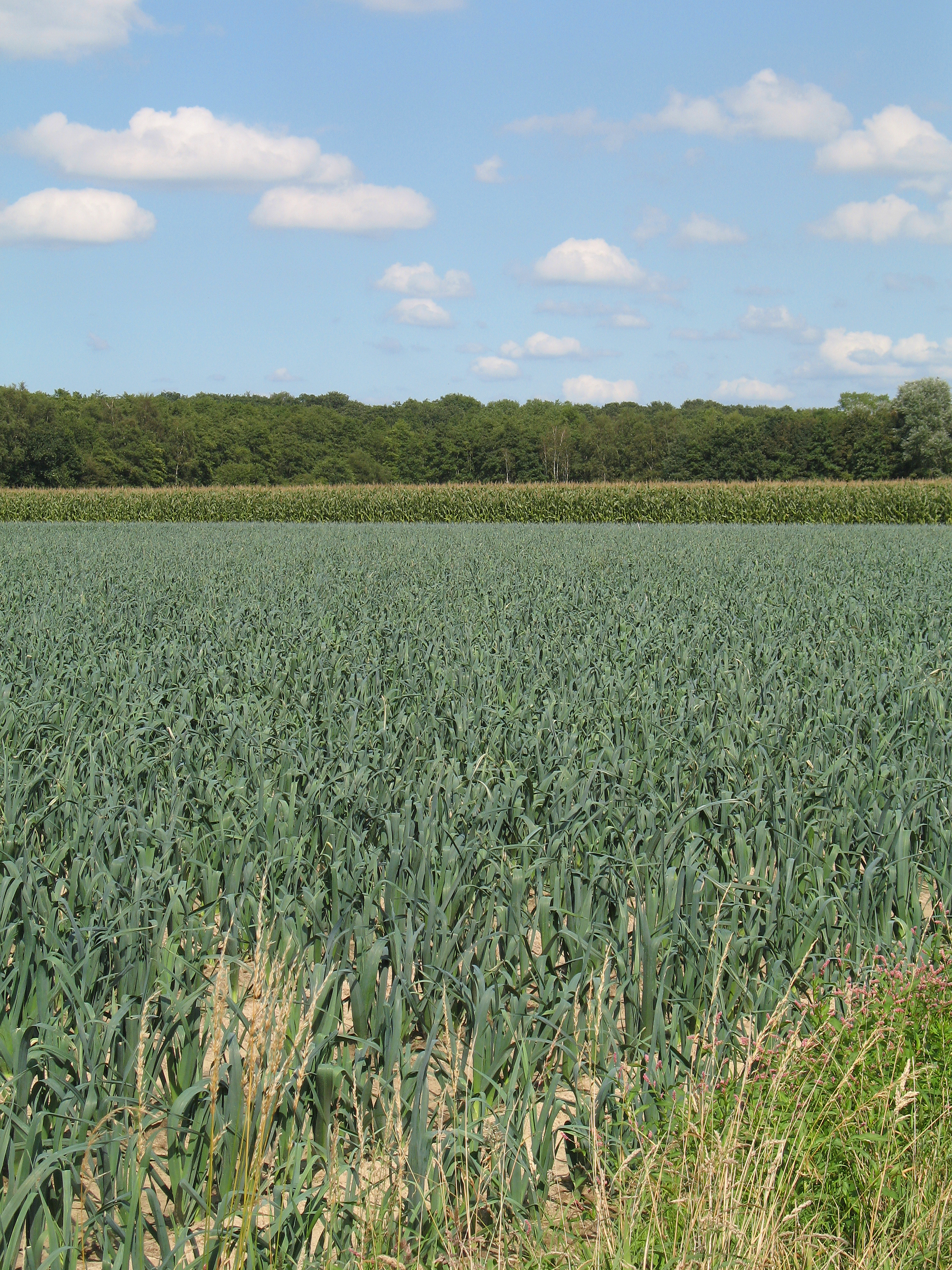 Field planted with leek (Allium porrum) in Houthulst, West Flanders, Belgium